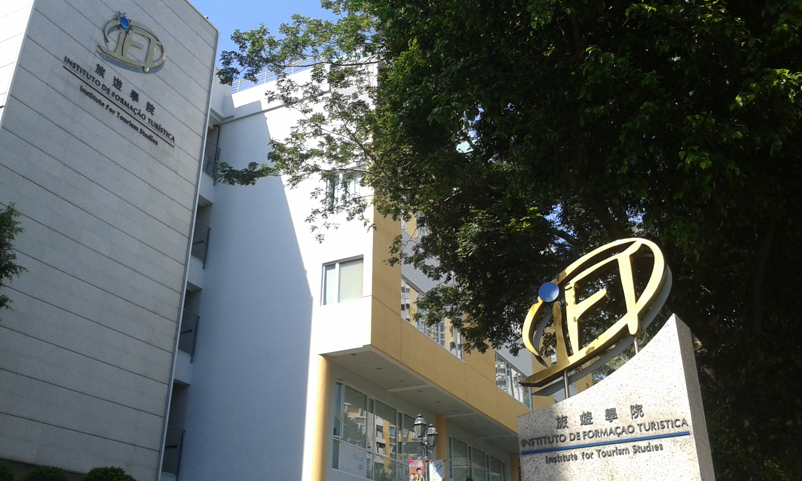 Entrance of IFT